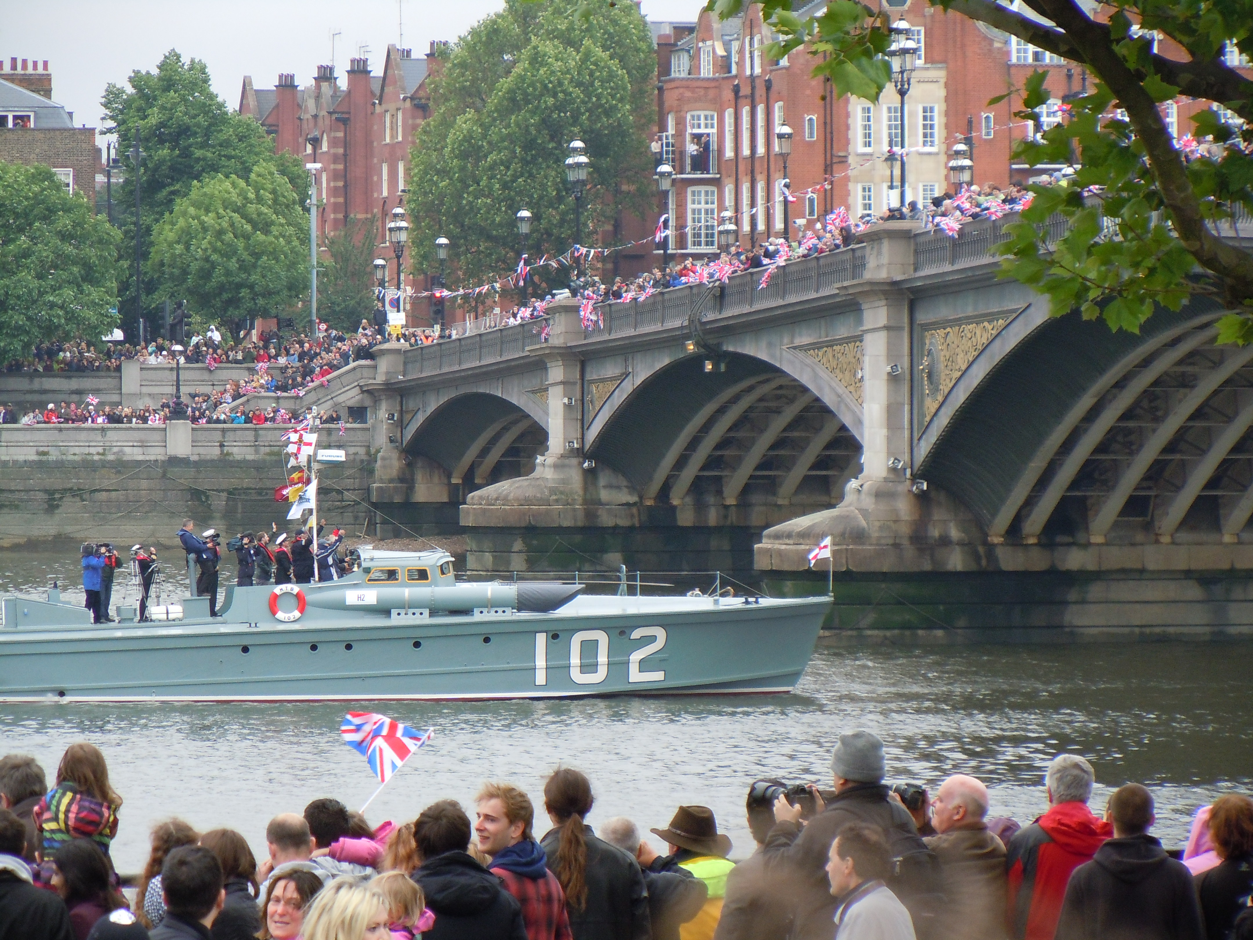 Warship in Queen's Jubilee Pageant